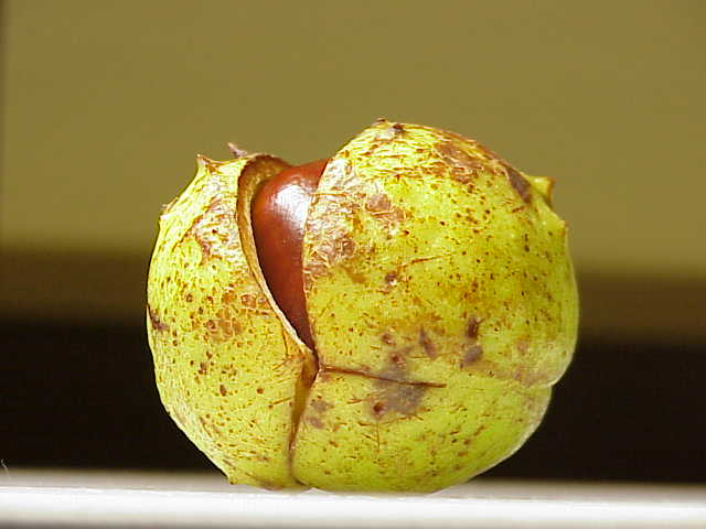 Species: Aesculus hippocastanum Family: Hippocastanaceae Image No. 7